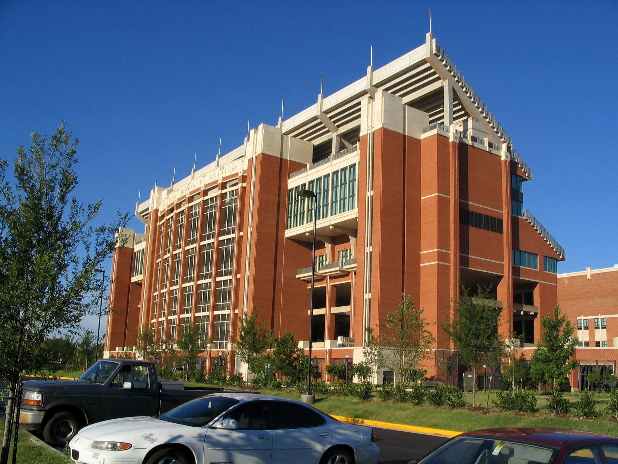 A view of the east side of Oklahoma Memorial Stadium in Norman, OK